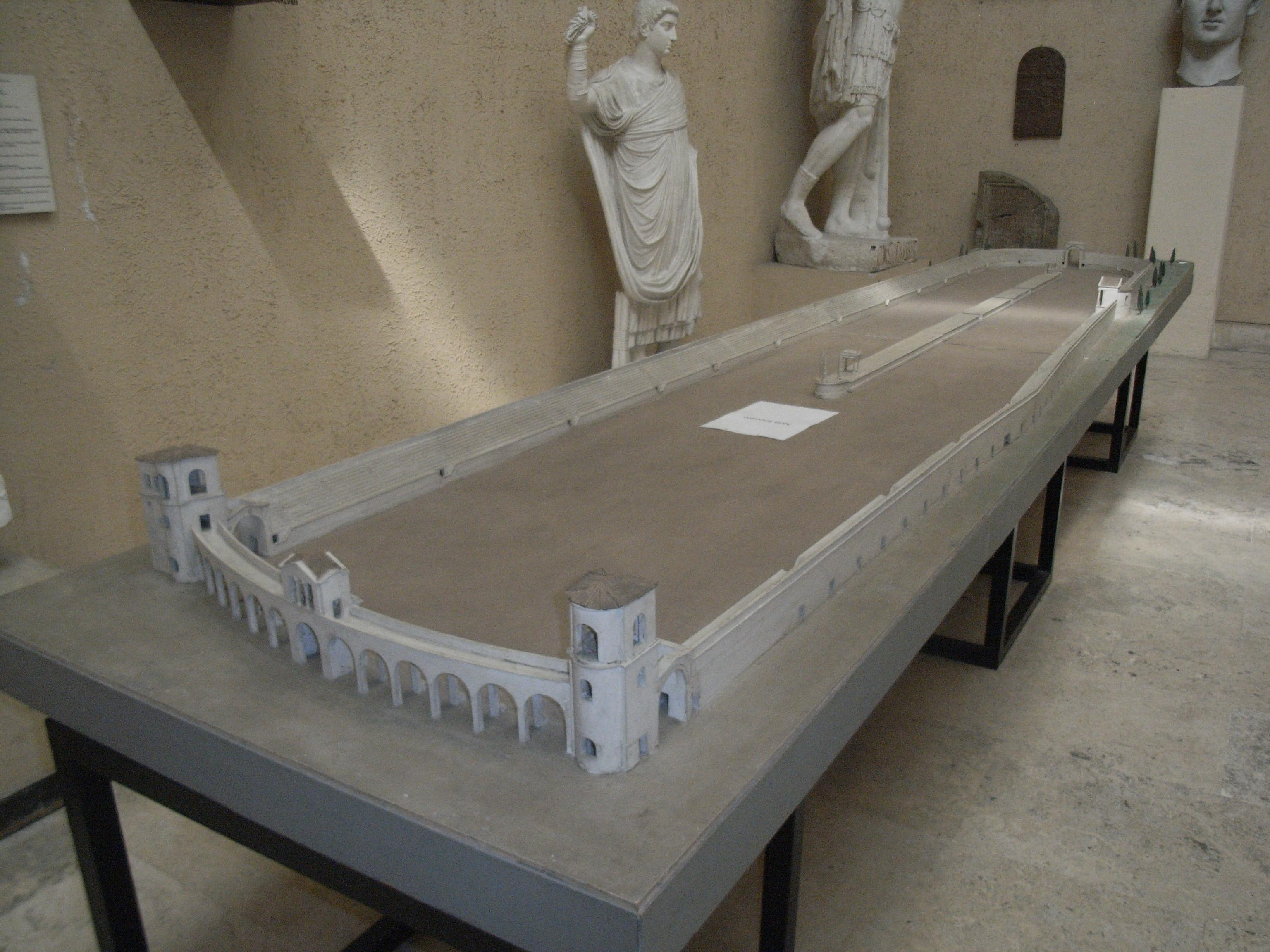 Museo della civiltà romana (Rome). Plastico of Circus Massimo.